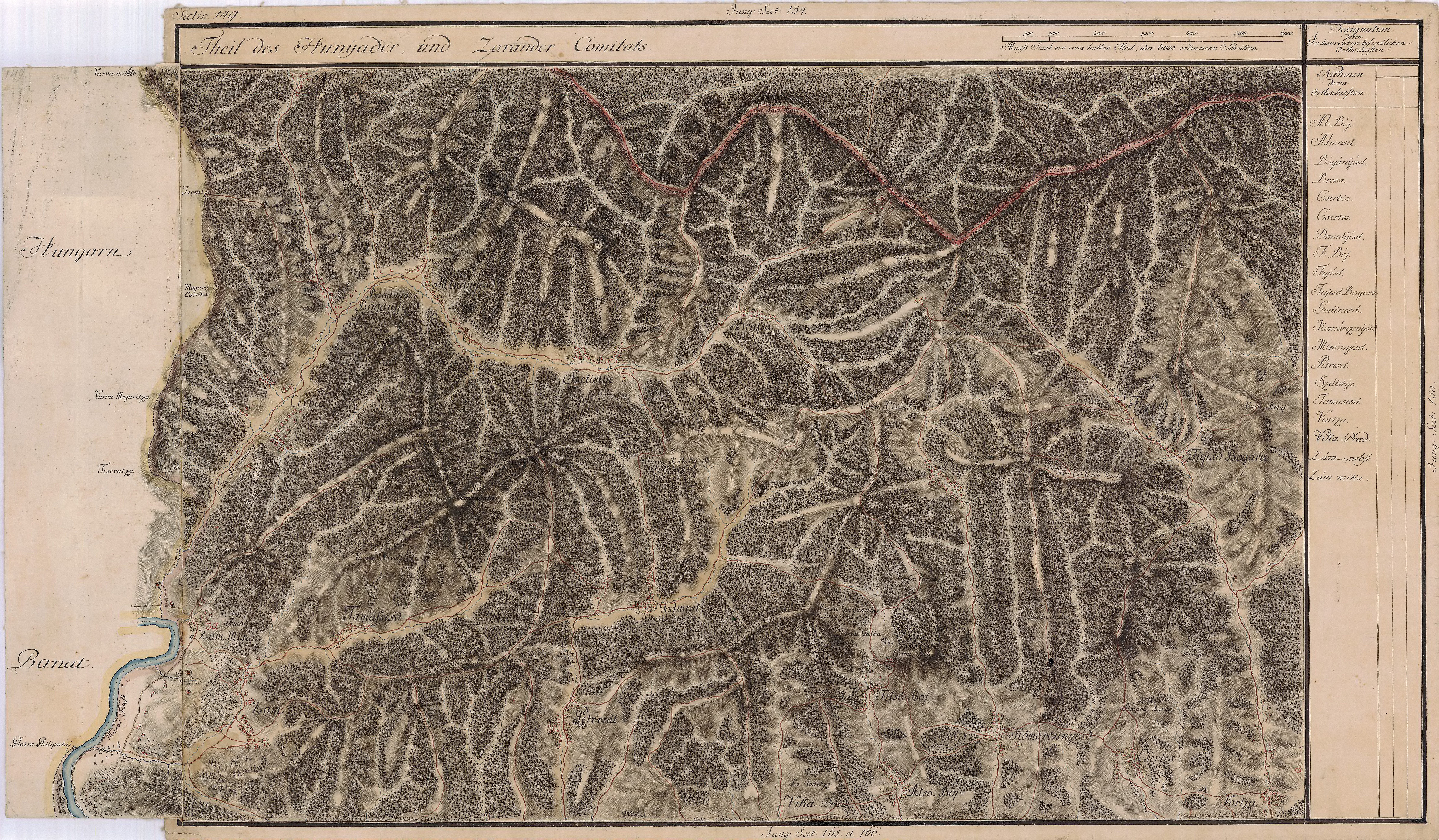 Grand Duchy of Transylvania, 1769-1773. Josephinische Landaufnahme pg.149Română: Harta Iosefină a Transilvaniei, 1769-1773. Josephinische Landaufnahme pg.149